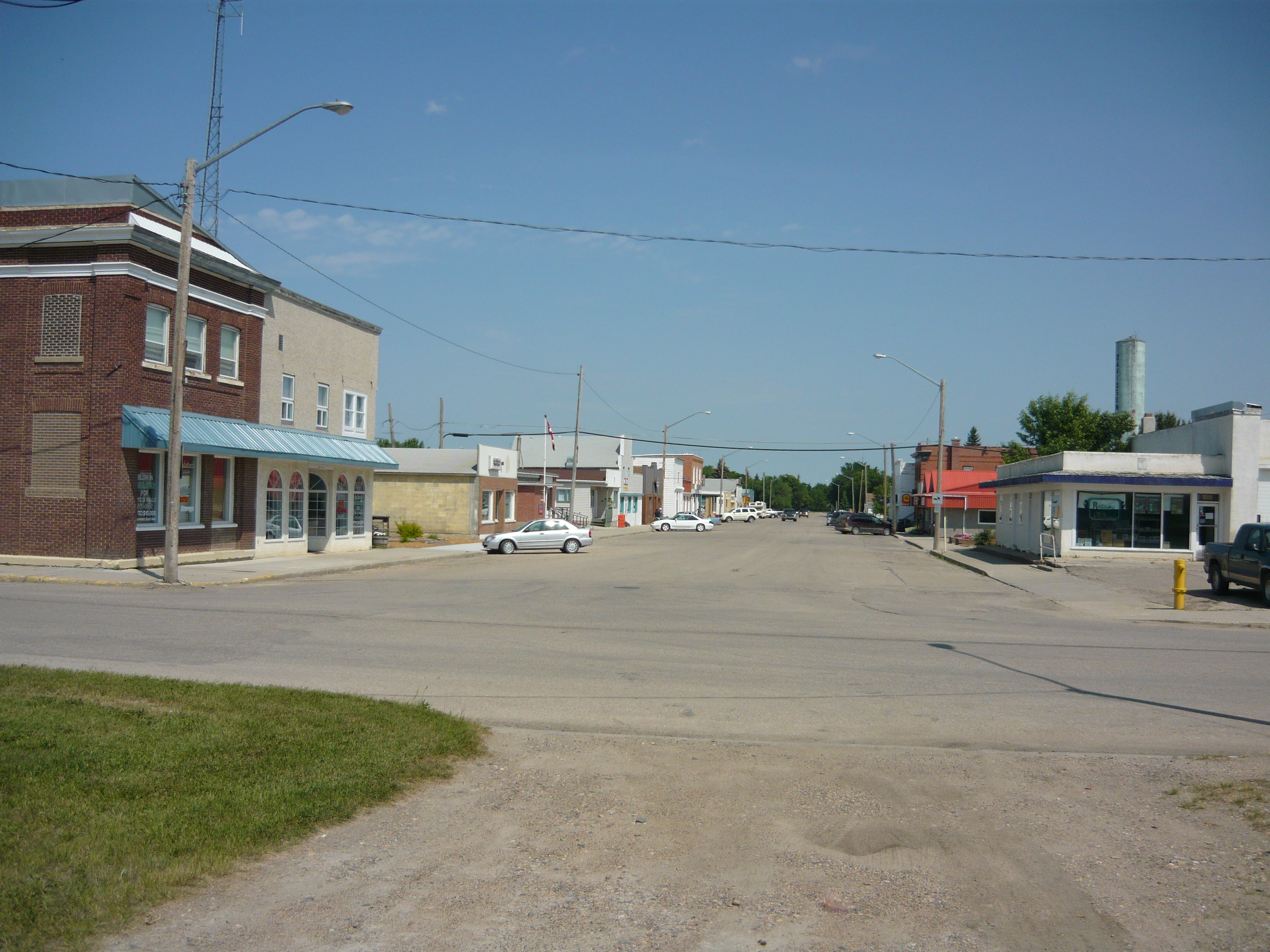 Business district of Davidson, Saskatchewan, Canada. Photo taken from the intersection of Railway Street and Washington Avenue, looking northeasternly along Washington Avenue, away from the railroad.